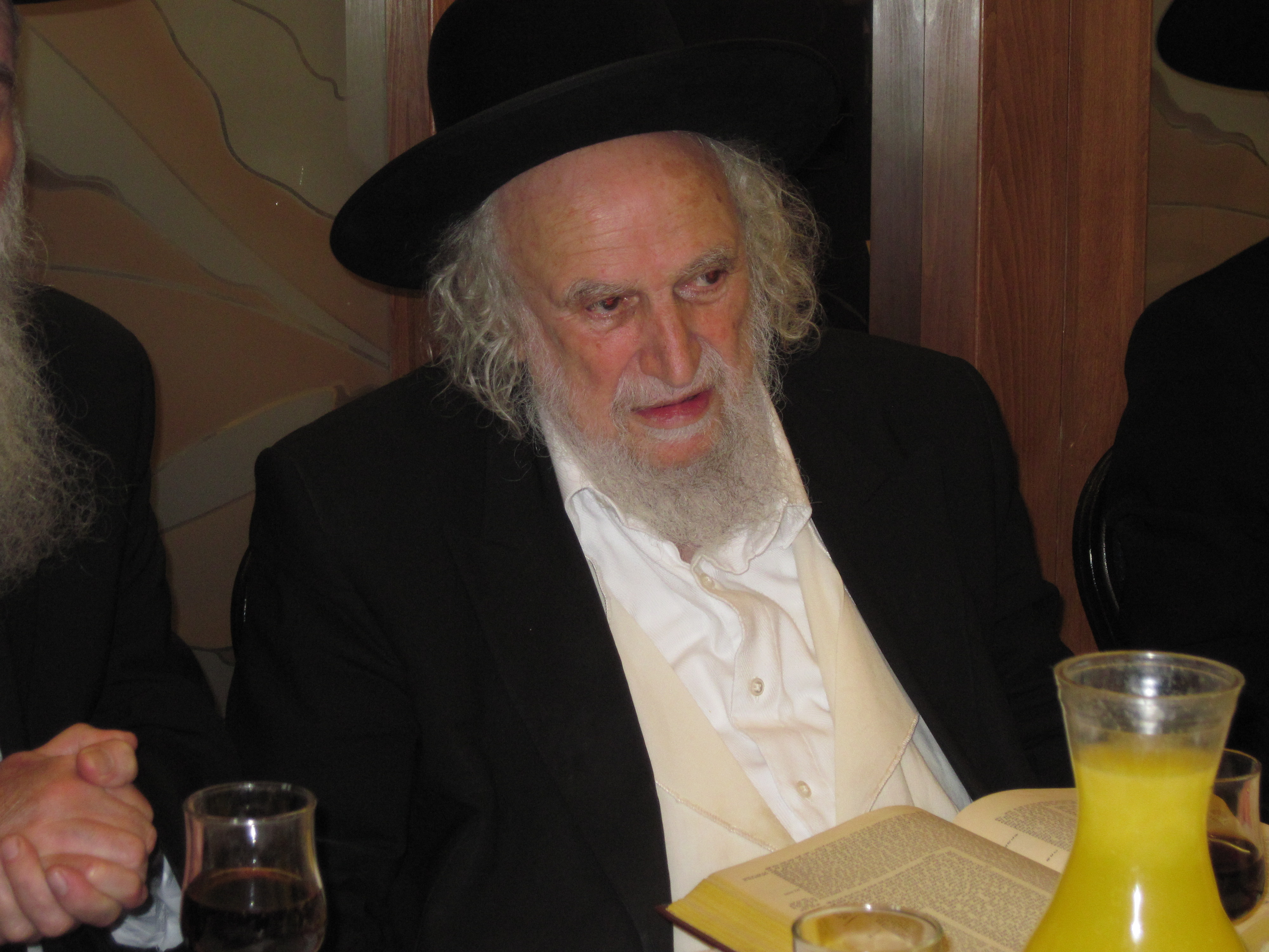 Rabbi Shmuel Auerbach, rosh yeshiva, Yeshivas Ma'alos HaTorah, Jerusalem, and eldest son of Rabbi Shlomo Zalman Auerbach.